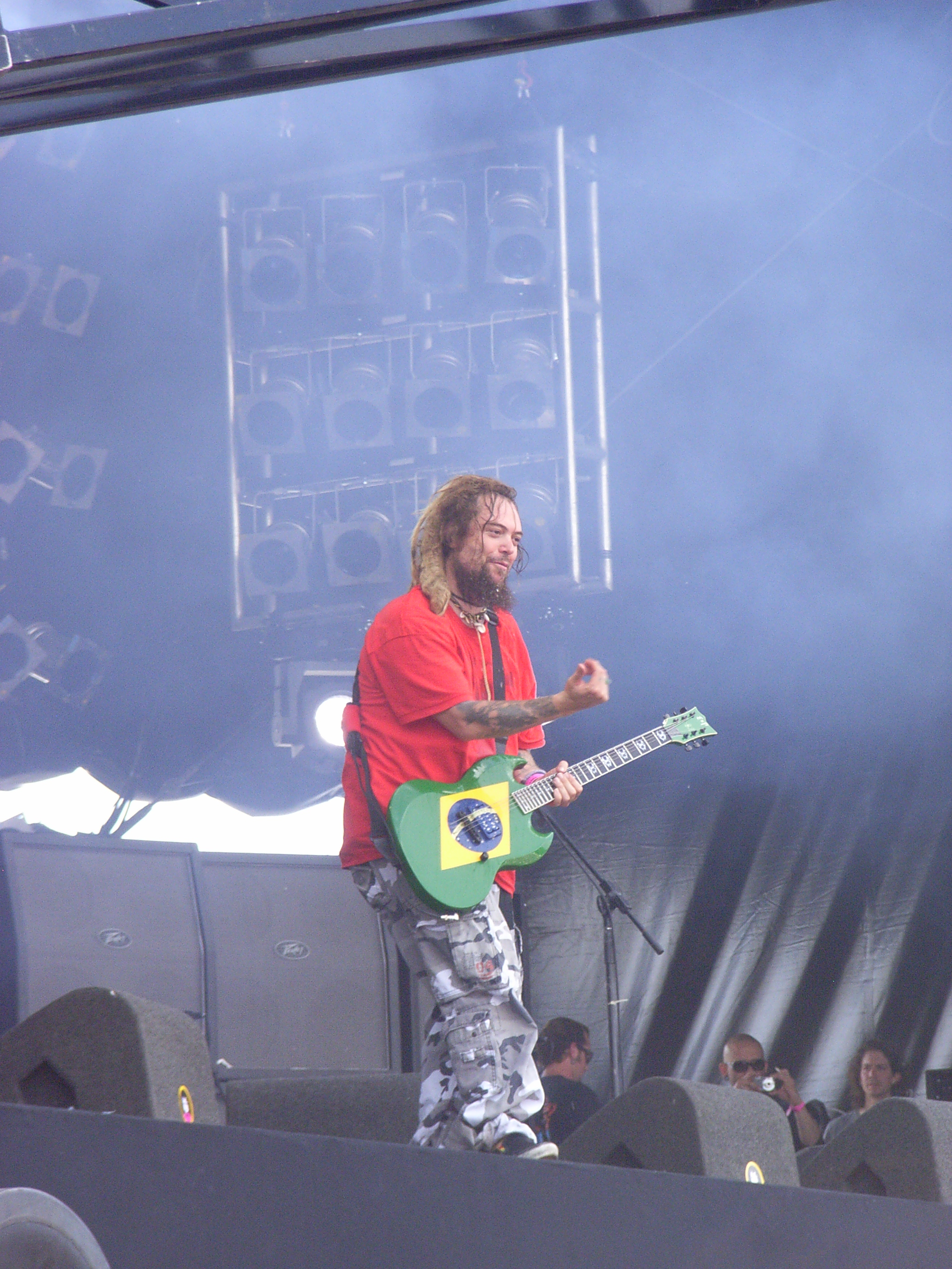 Max Cavalera at Pinkpop 2008